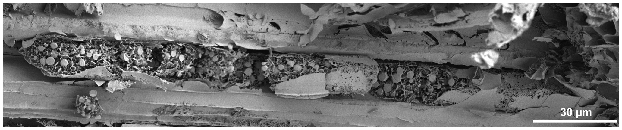 Longitudinal fracture of a laticifer in a shoot axis of Ficus benjamina. Latex particles are abundant in the laticifer, but are absent in the surrounding cells (Cryo-SEM image).